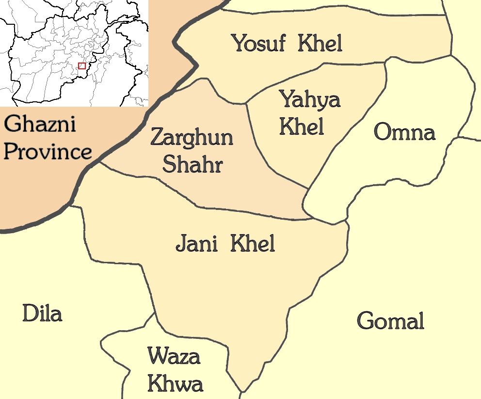 Map showing borders of Zarghun Shahr District of Paktika Province, Afghanistan, as reconstituted in 2004. Based upon Afghanistan Information Management Service (AIMS) data June 2004. Created using JASC Paint pro v. 9, with modified outline map of Afghanistan from File:Paktika districts.png